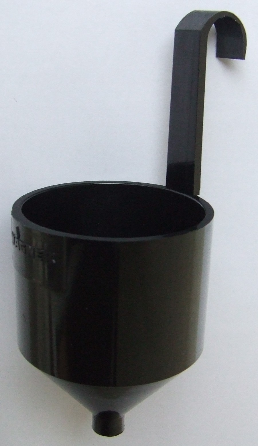 viscosimeter